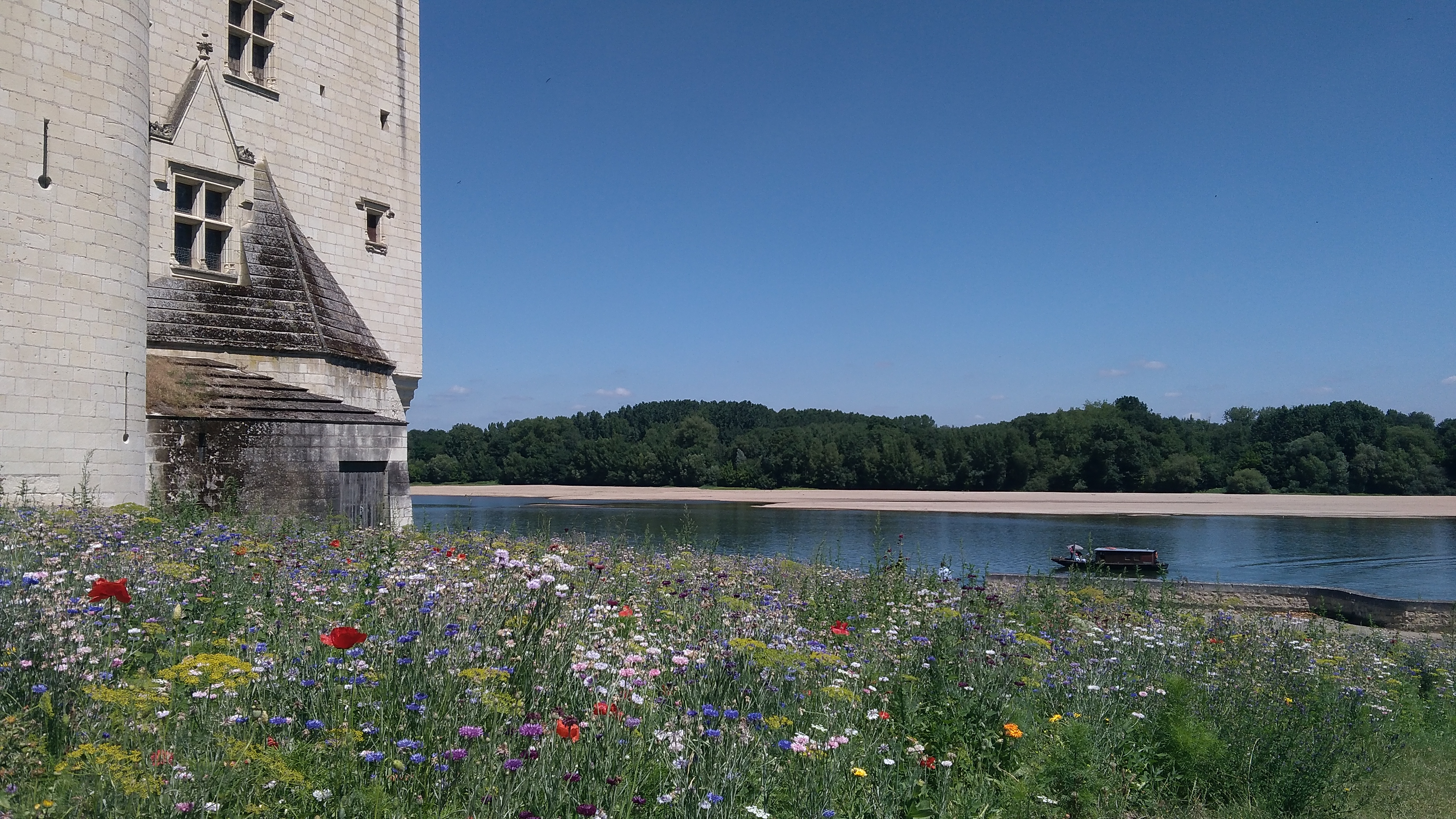 Gardens of the Château de Montsoreau-Museum of contemporary art, Loire Valley, Unesco World Heritage site, France